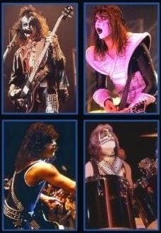 Advert of Kiss Alive II Tour.